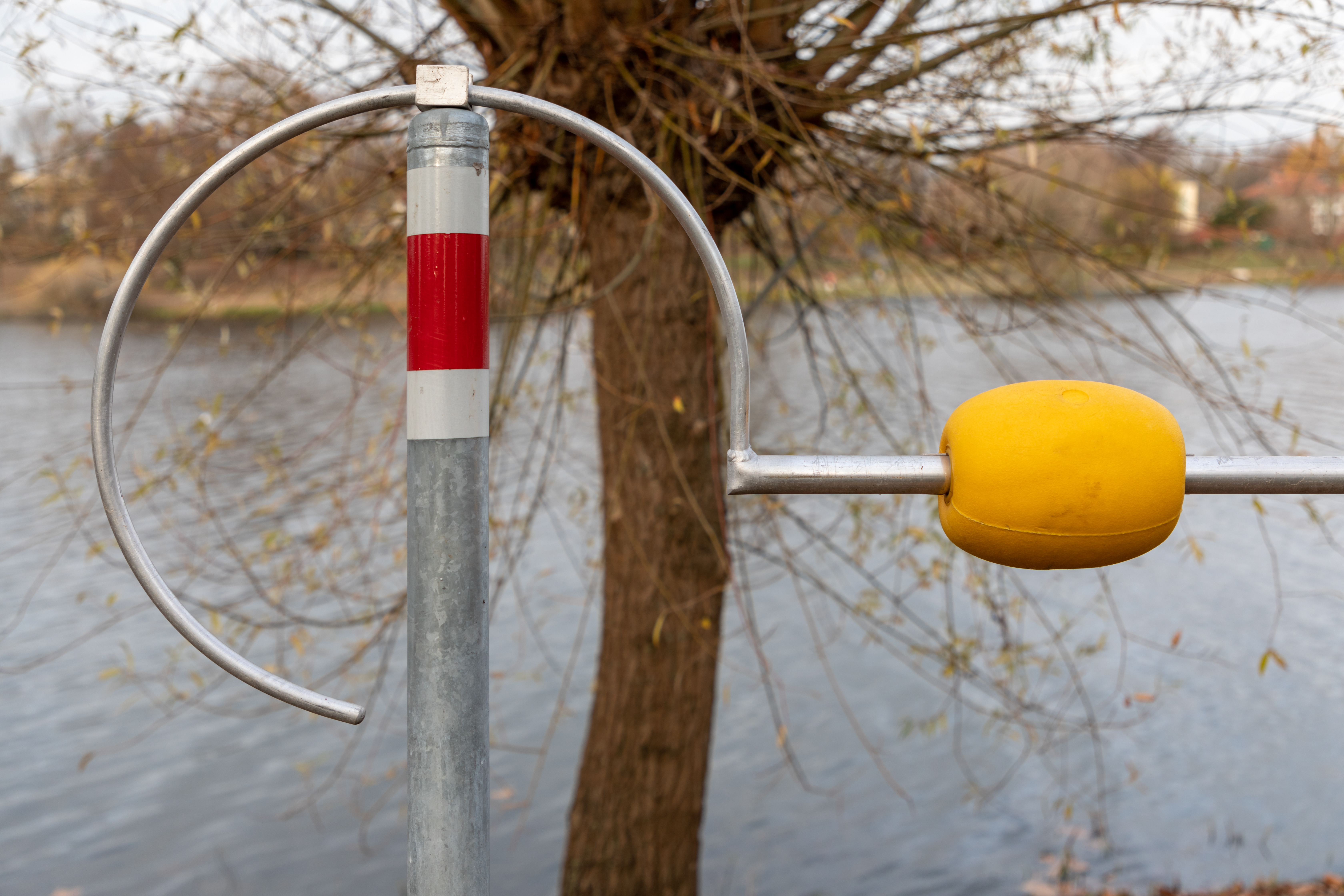 Boat hook for emergency case at Aasee, Münster, North Rhine-Westphalia, Germany